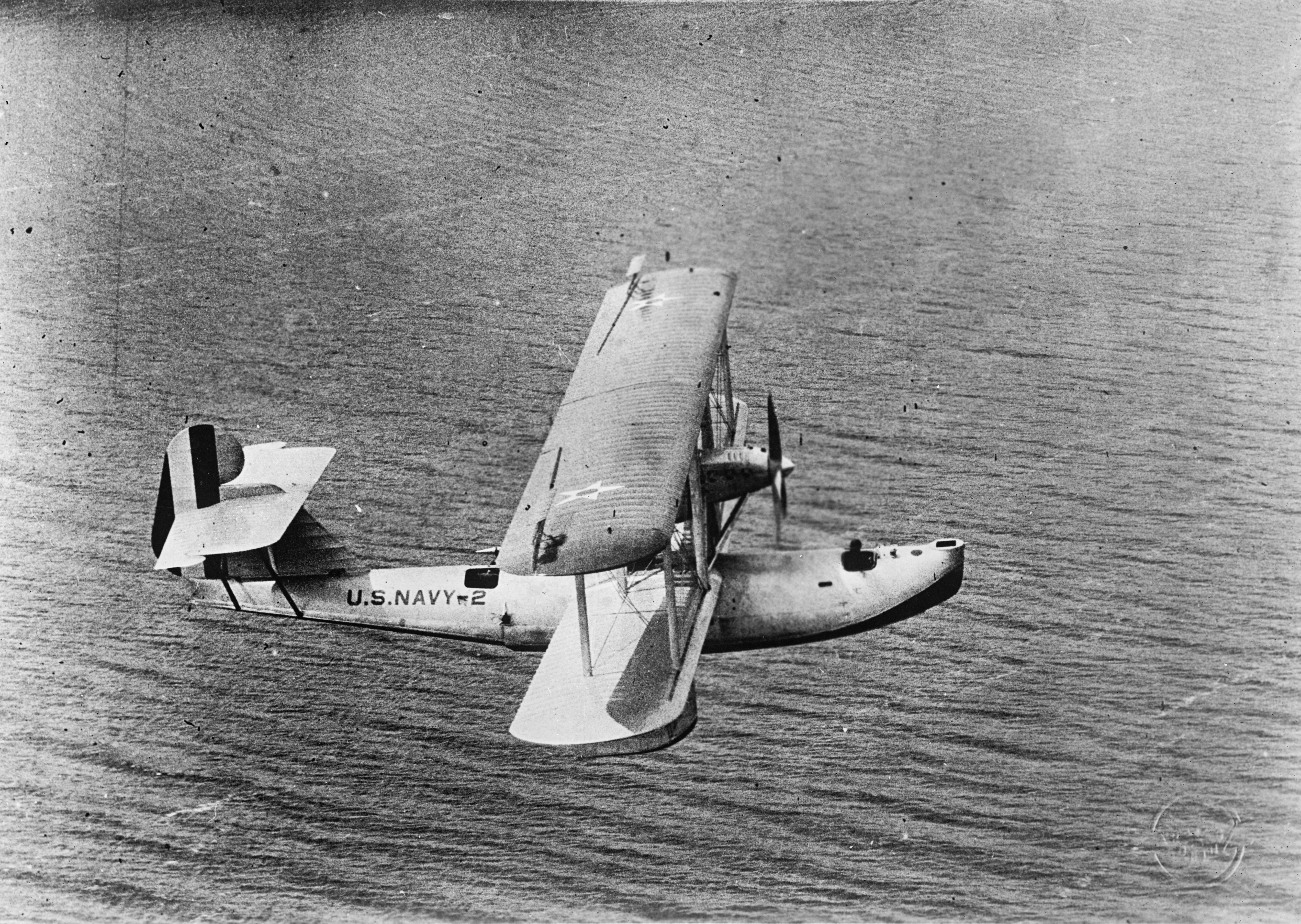 A U.S. Navy PB-1 (Boeing Model 50) patrol plane, 1925. The PB designation was first used for the Boeing model 50 flying boat which was built in 1925 for a nonstop flight to Hawaii. The US Navy had designated the aircraft PB-1 and given it serial A6881. The designation PB was the used again for the US Navy version of the B-17 Flying Fortress. On 31 July 1945 the US Navy ordered a single B-17F from the USAAF production line with the designation PB-1 and the BuNo 34106. Former B-17Gs were converted for the US Coast Guard as PB-1Gs and for the USN as PB-1Ws.